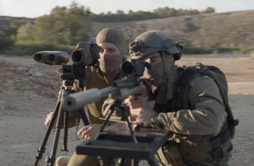 IDF snipers and spotters practice. The sniper is armed with the IDF Barak sniper rifle (H-S Precision Pro Series 2000 HTR 0.338 LM).